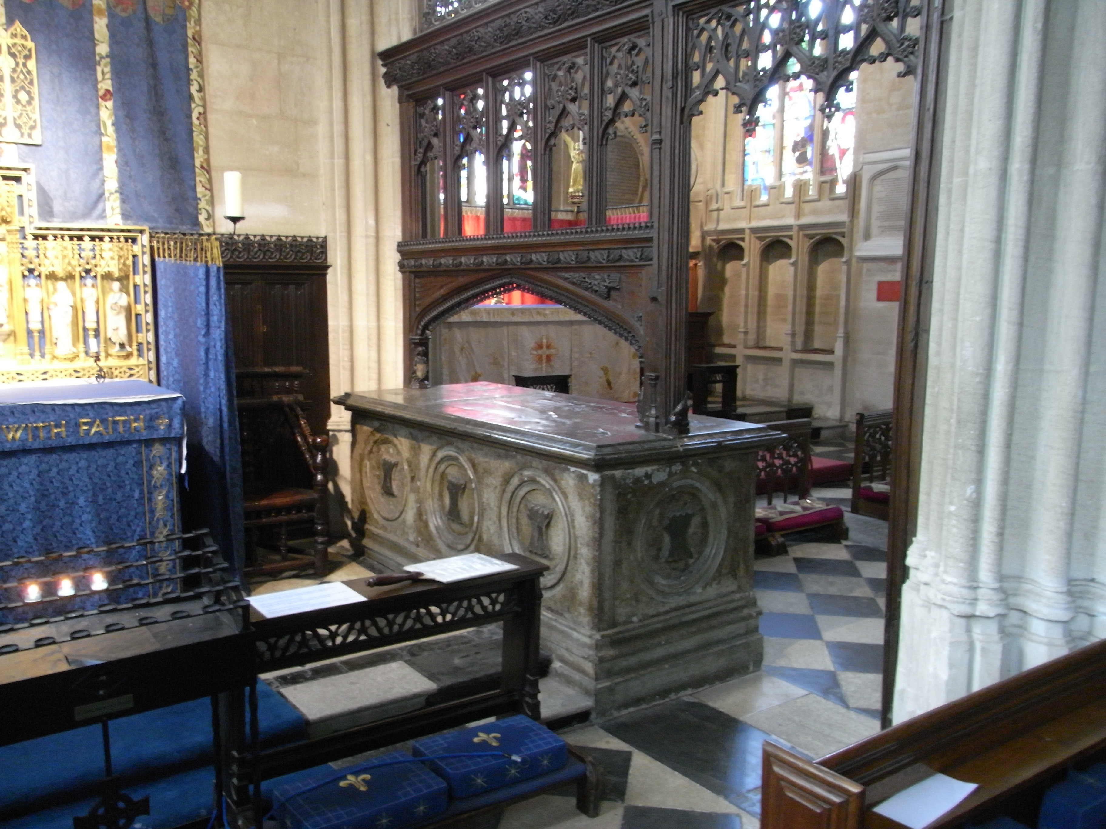 Tomb of John Tame(d.8th.May 1500) and his wife Alice Twynyho(d.20th December 1471). John Tame rebuilt the church, consecrated in 1497.